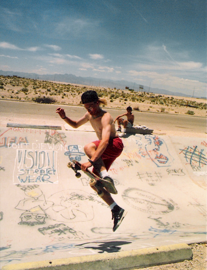 Andy does a boneless as Brian Lotti gets ready to help change skateboarding.